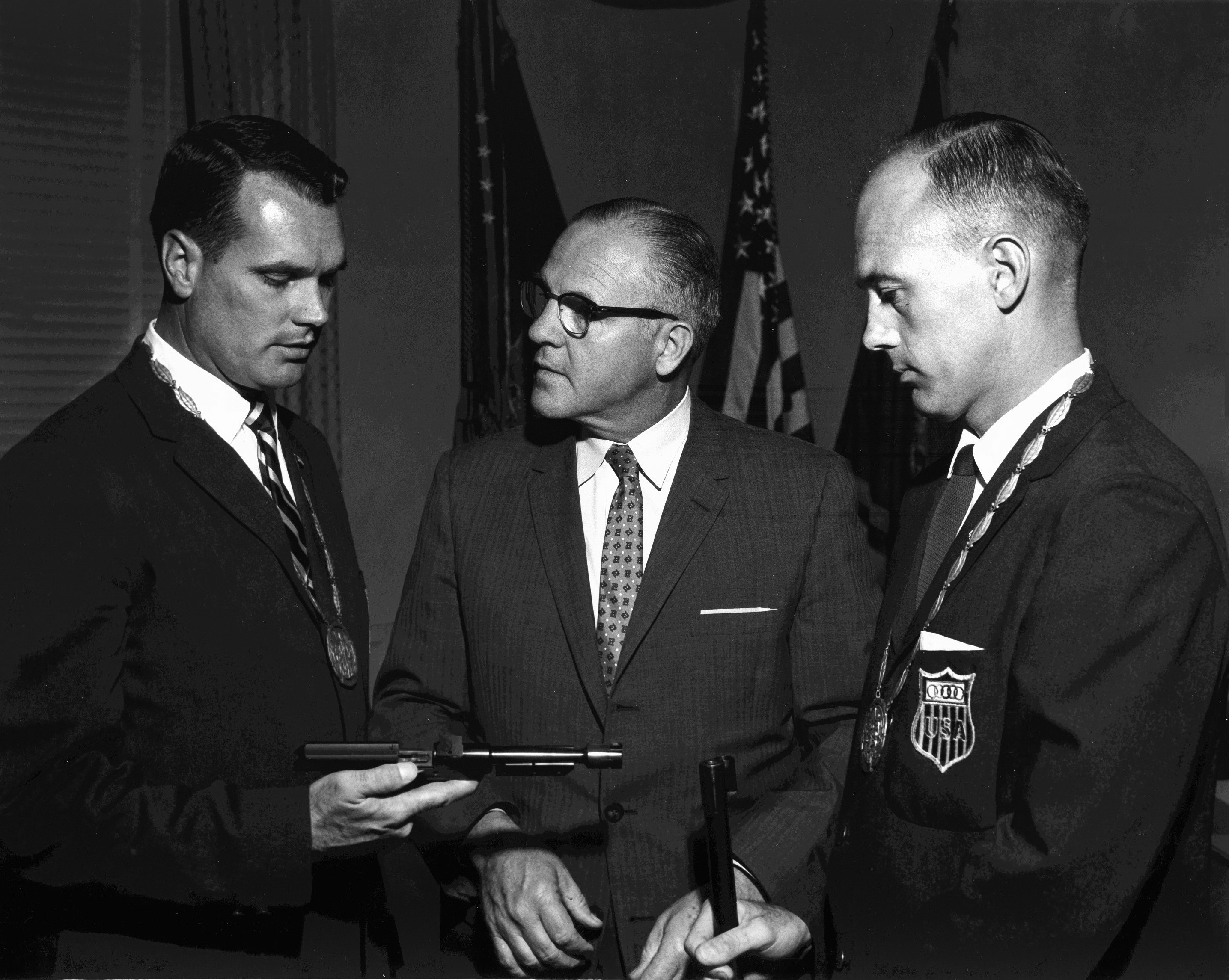 "Olympic Champs-Marine Captain William W. McMillan, Jr. (left) and Gunnery Sergeant James E. Hill, (right) are personally commended by General David M. Shoup, Commandant of the Marine Corps, for their shooting victories in the 1960 Rome Olympics. McMillan holds the pistol which earned him the 33rd U.S. Gold Medal for winning the rapid-fire competition in a special shoot-off. Hill took a silver medal for the U.S. with his close second-place win in the smallbore rifle prone position championship. The Marine champions met with General Shoup at Marine Headquarters in Washington, D.C. (Sept 14) shortly after arriving from Rome. McMillan, now stationed at Quantico, Va., is from Turtle Creek, Pa. Hill is from Portland, Ind., and is presently serving at the Marine Corps Recruit Depot, San Diego, Calif." From the Olympics Collection (COLL/1515) at the Marine Corps Archives and Special Collections OFFICIAL MARINE CORPS PHOTOGRAPH